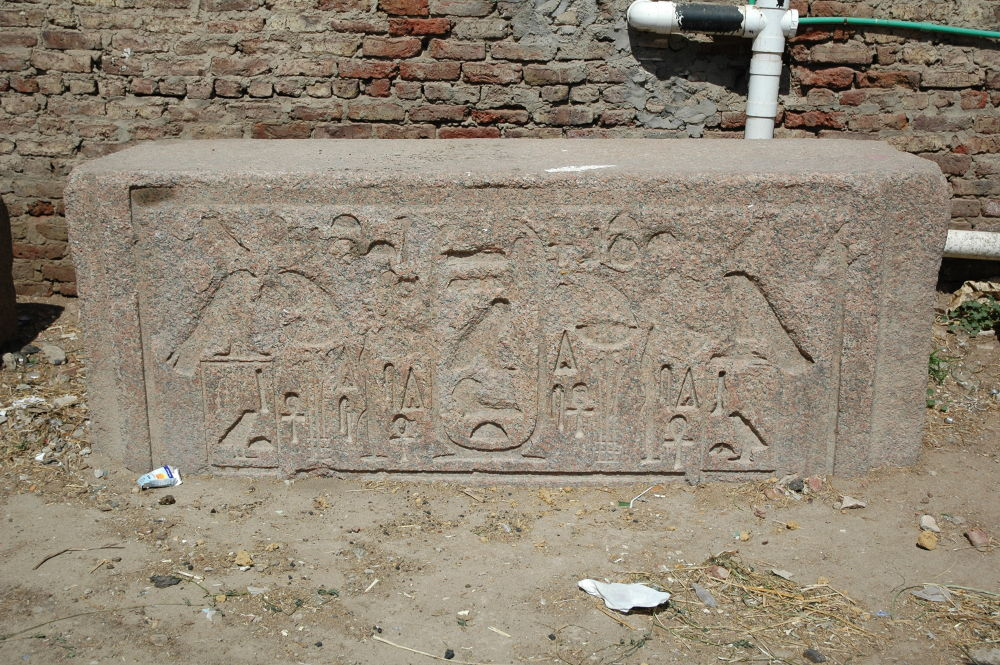 Granite block in the village Ezbet Helmi near Tell el-Daba / Ancient Avaris with the name of Amenemhat I